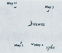 The satellite of Venus, as depicted in Montaigne drawing